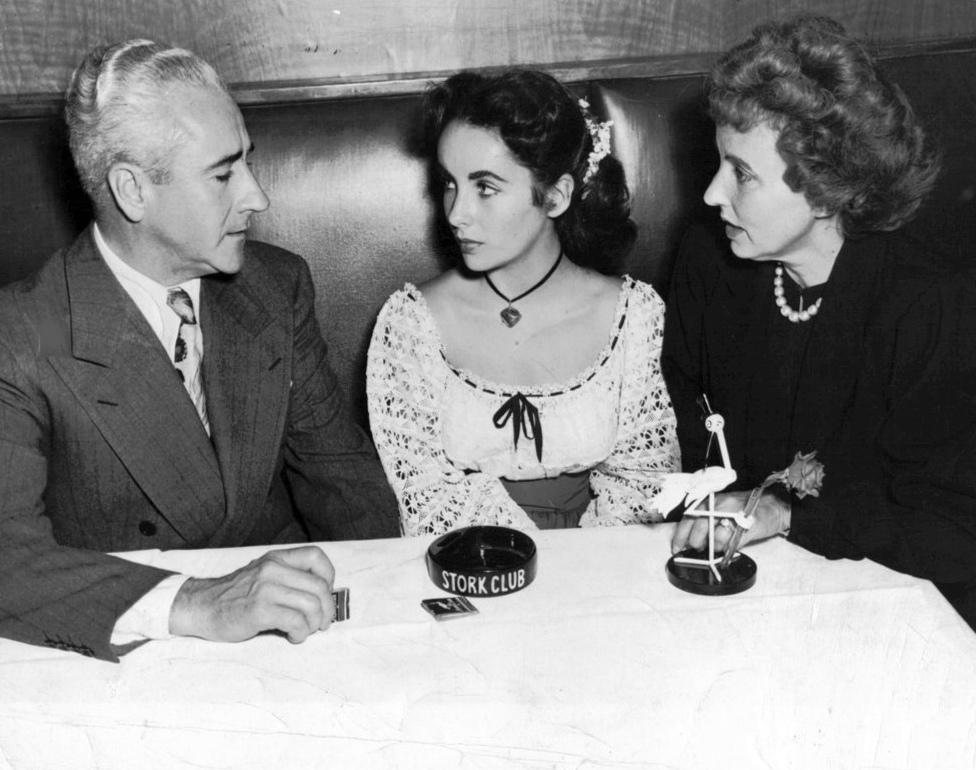 Photo of Elizabeth Taylor with her parents at the Stork Club.